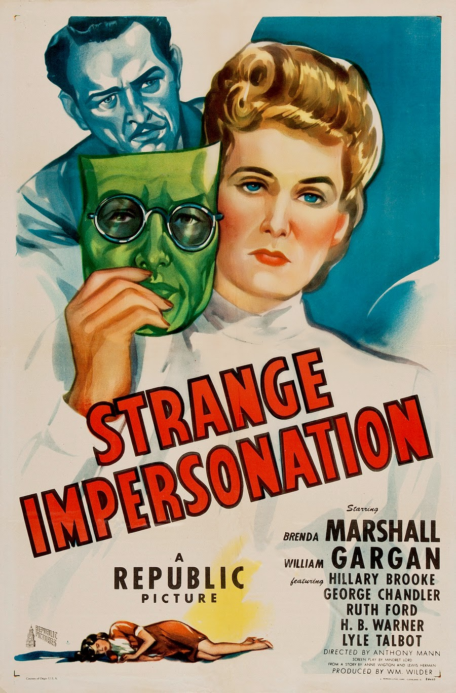 Poster for the 1946 film Strange Impersonation. The item has no copyright markings on it as can be seen in the links above. At bottom is Country of origin USA, Morgan Litho Comp, Cleveland, O--they printed the poster-- and 29483. These look to be associated with the printing of the poster.